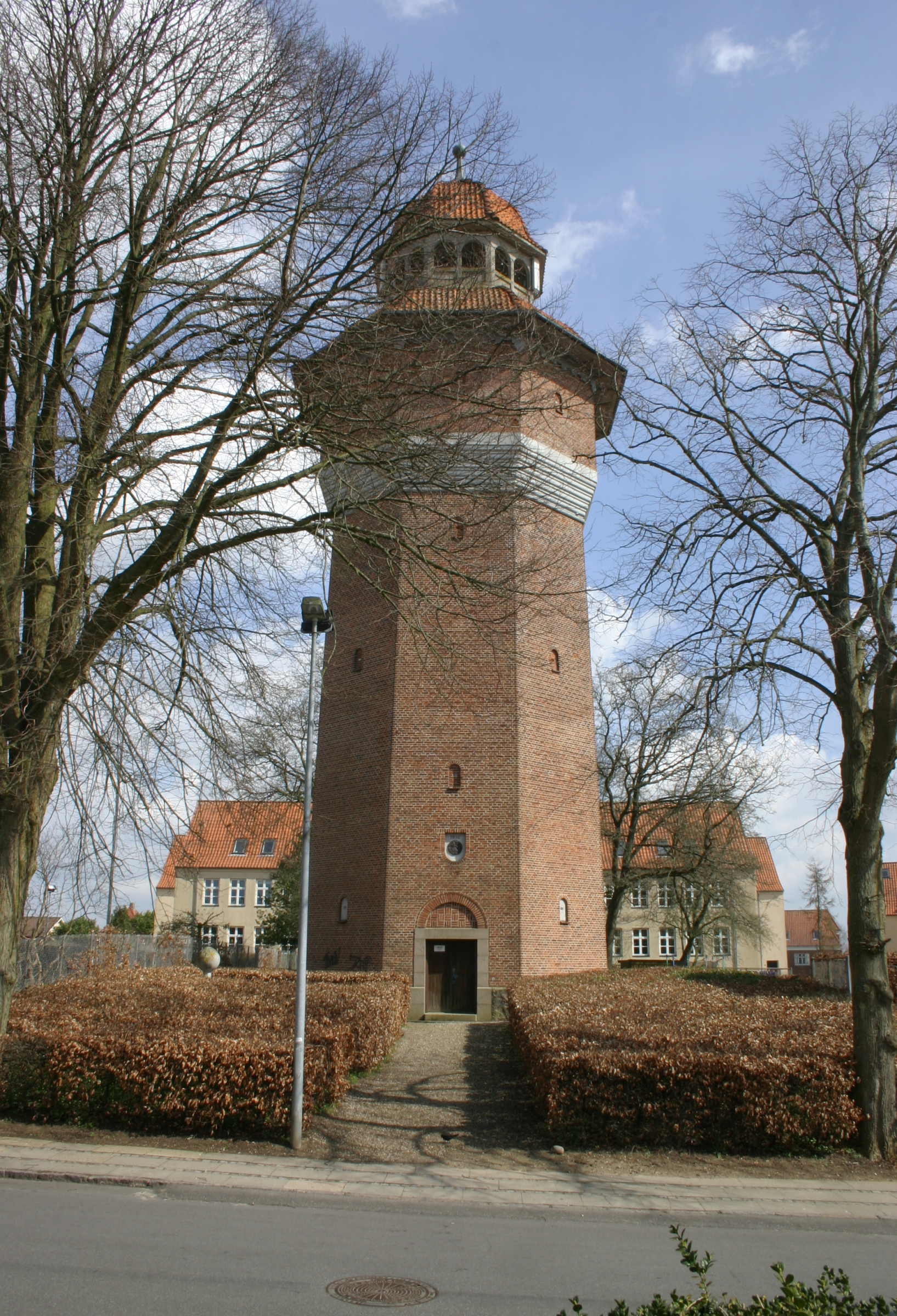 Watertower located at Goehlmannsvej in Kolding Denmark. Vandtårnet på Gøhlmannsvej i Kolding Danmark.